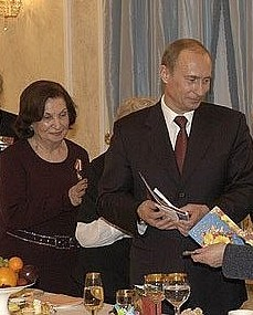 Vladimir Putin meets Soviet intelligence officer Gohar Vartanian